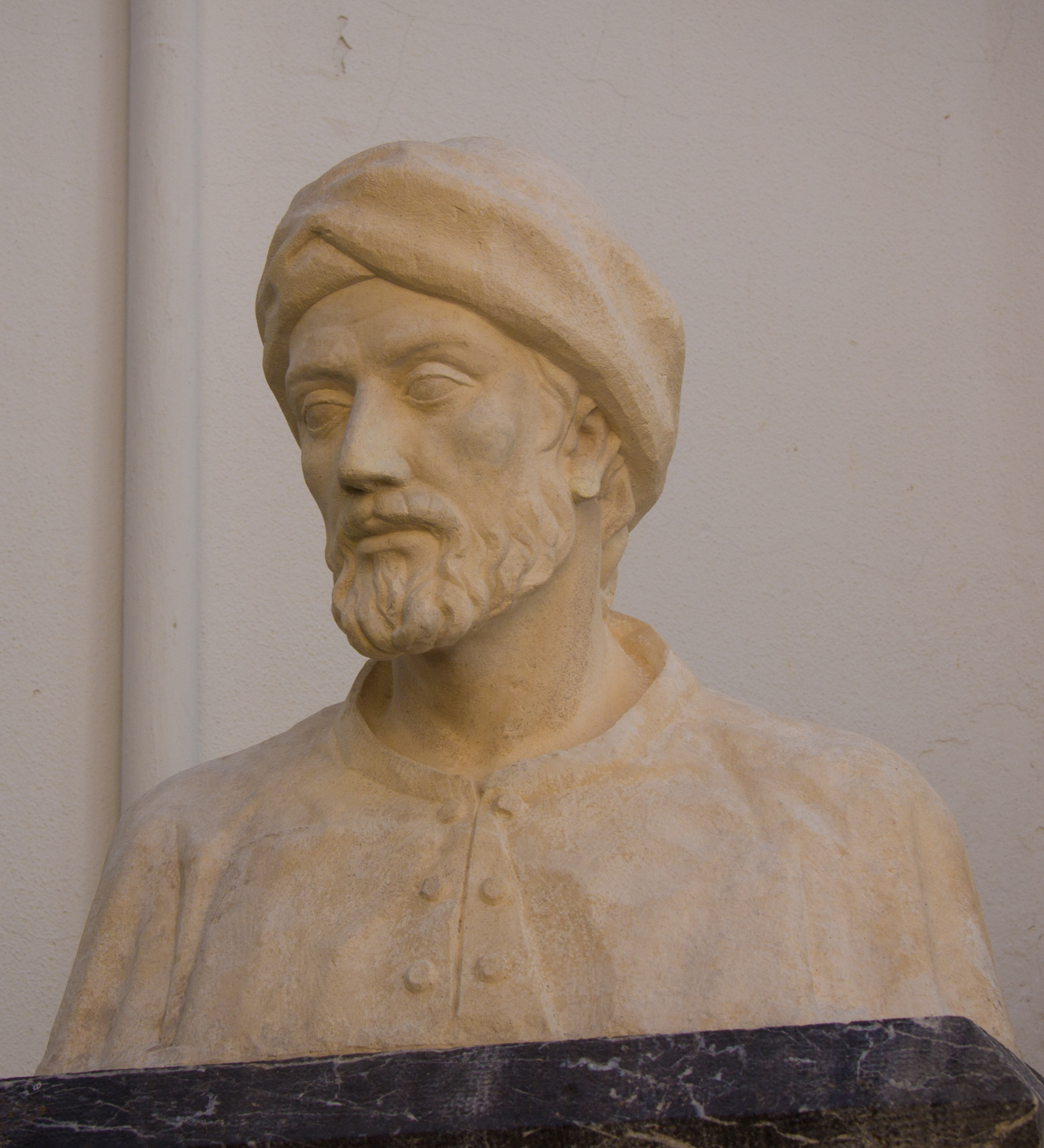 Córdoba, Spain.